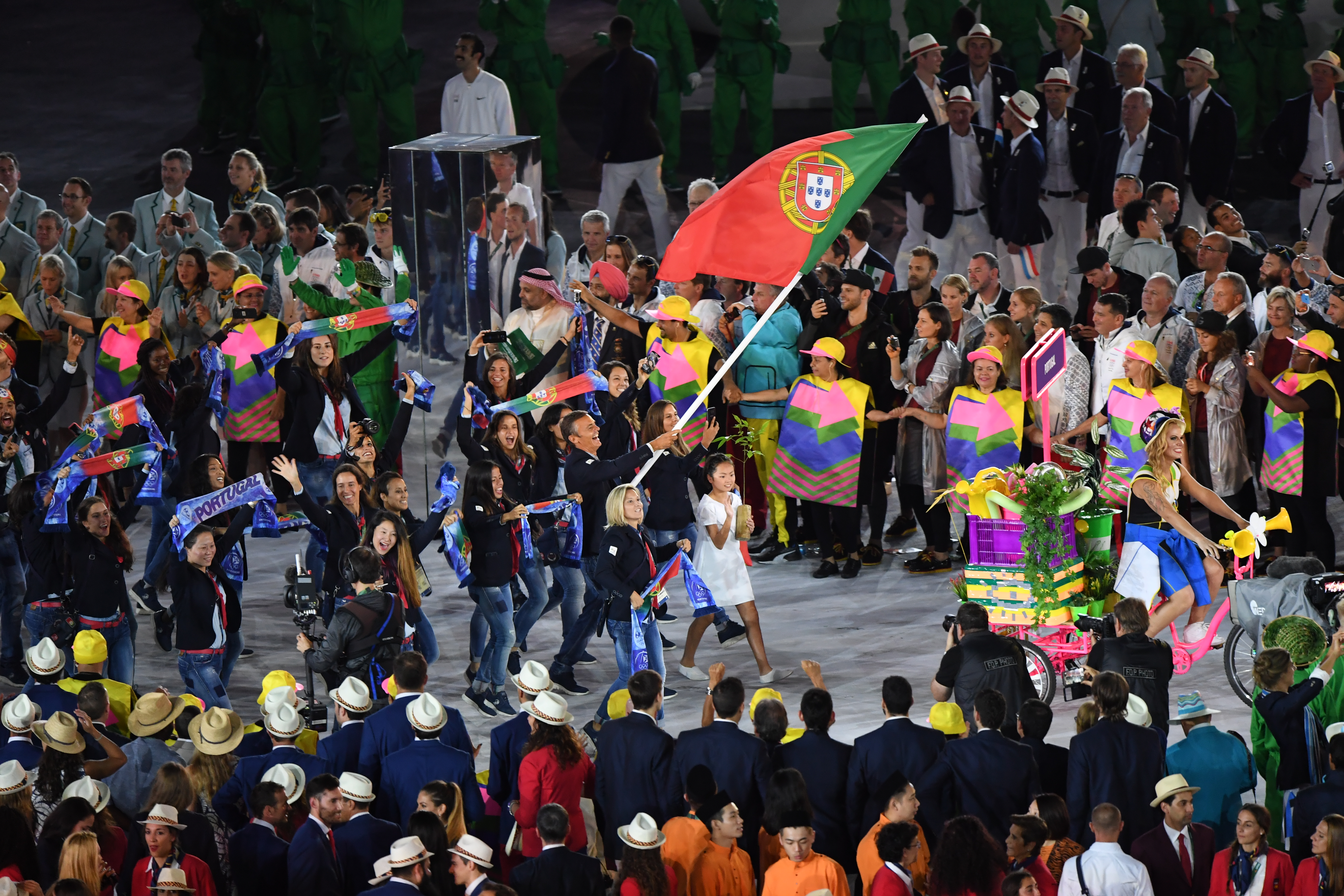 A scene from the Rio 2016 Olympic Games Opening Ceremony on Aug. 5 at Maracana Stadium in Rio de Janeiro, Brazil. U.S. Army photo by Tim Hipps, IMCOM Public Affairs